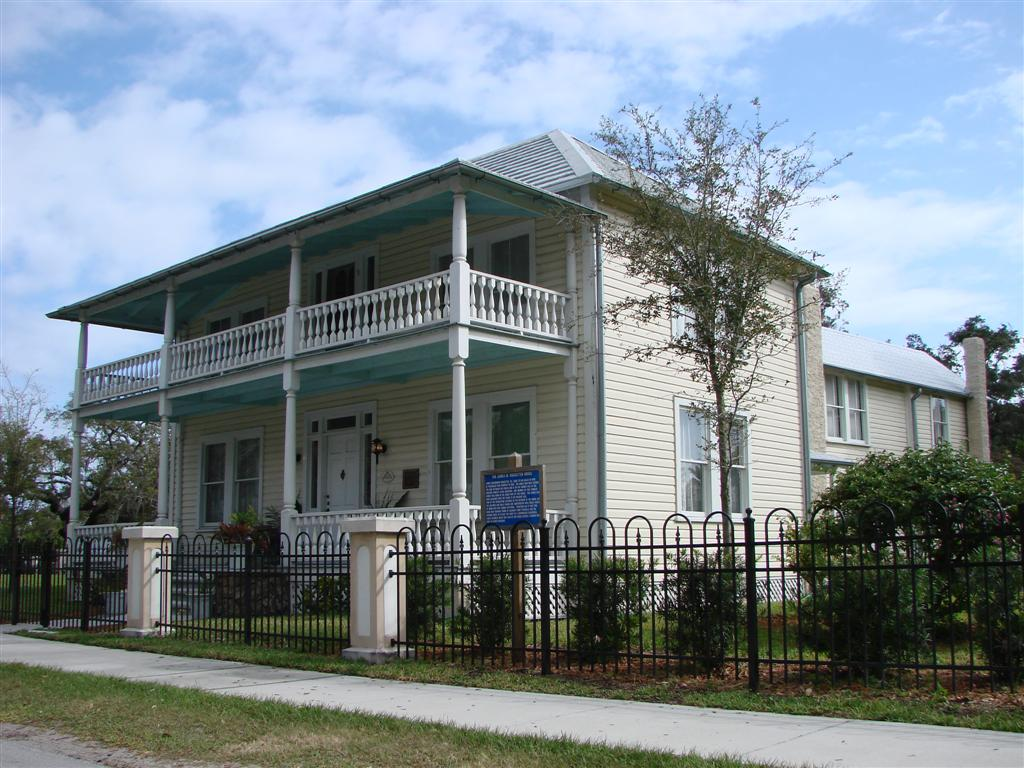 James Wadsworth Rossetter House in Melbourne, Florida. March 24, 2007.